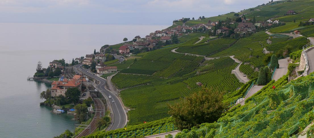 Vineyards of Saint-Saphorin with village Rivaz from Saint-Saphorin